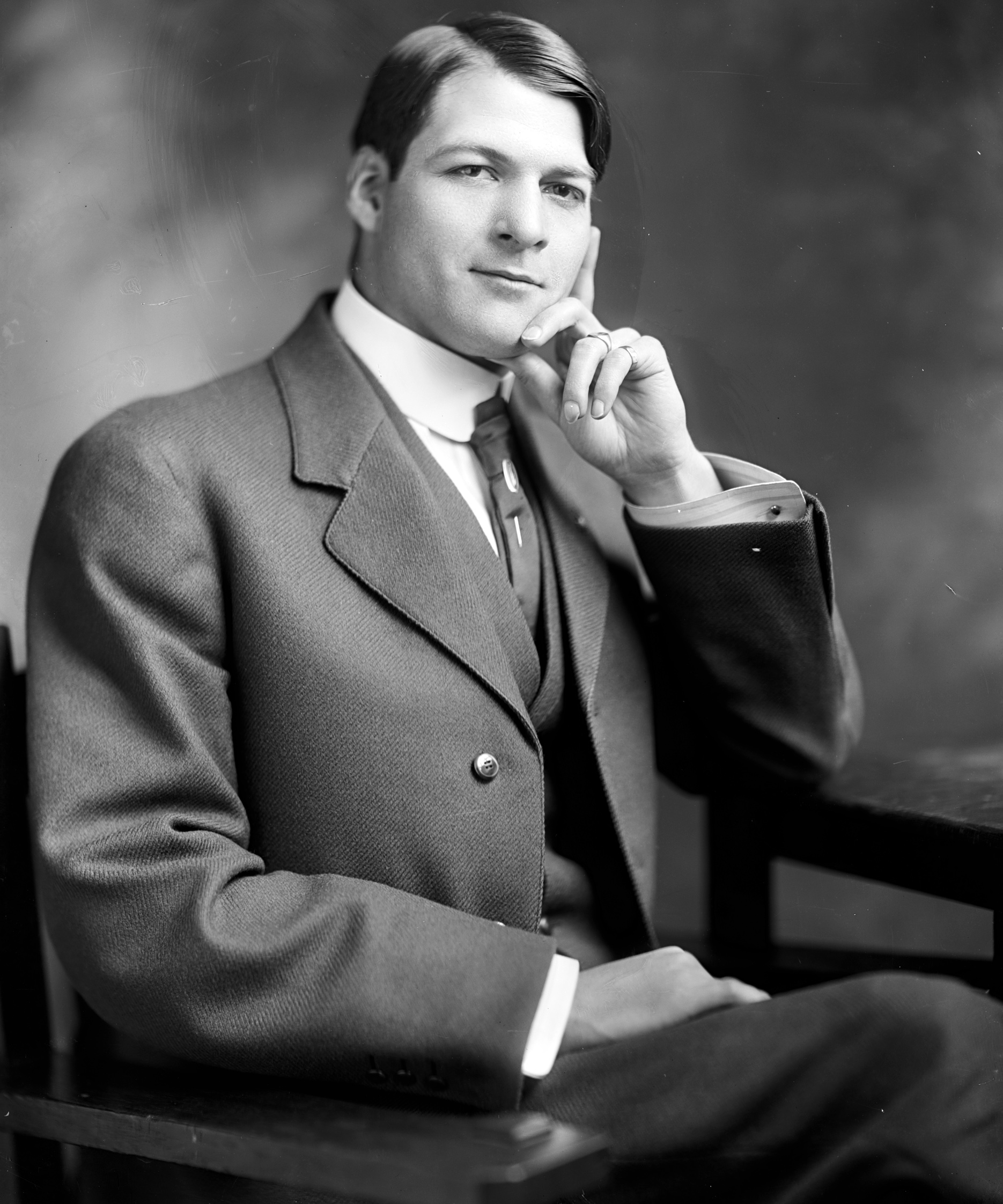 Sydney Anderson, US Representative from Minnesota